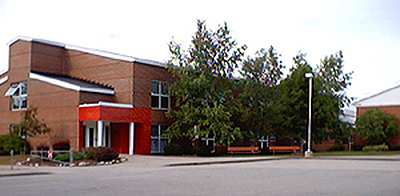 The main entrance to Lincoln Akerman School.